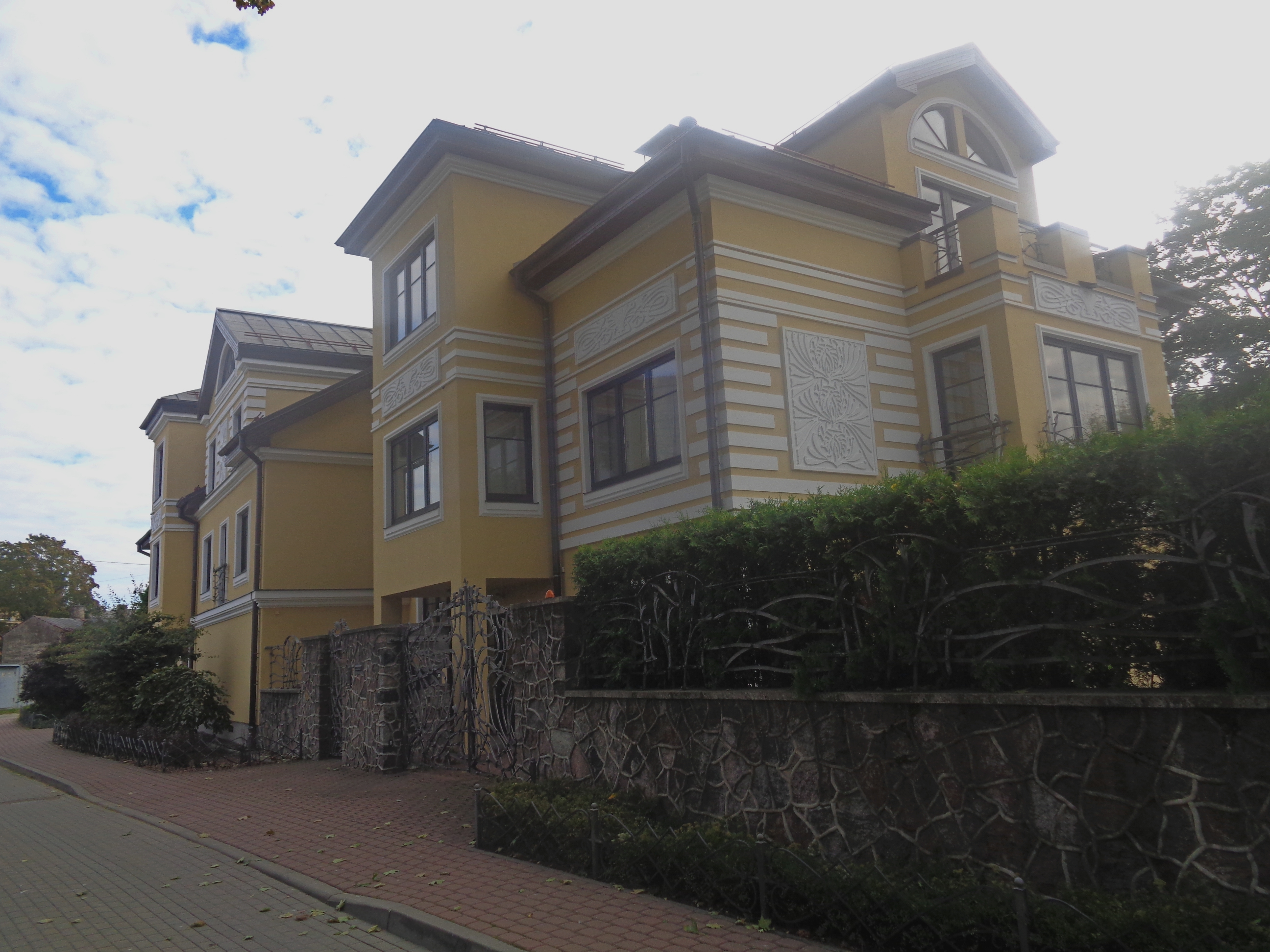 5 Buršu street mansion.